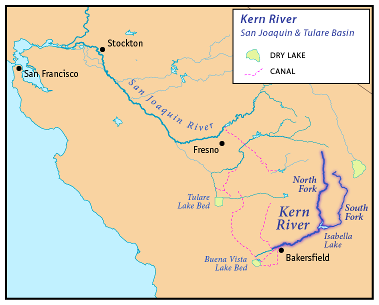 This is a map of the Kern River - Kern County, California. I, Pfly, created it using USGS data from the National Map project, processed with ArcGIS as a basemap, then redrawn with Adobe Illustrator and Adobe Photoshop. I also consulted the Benchmark Maps atlas of California.